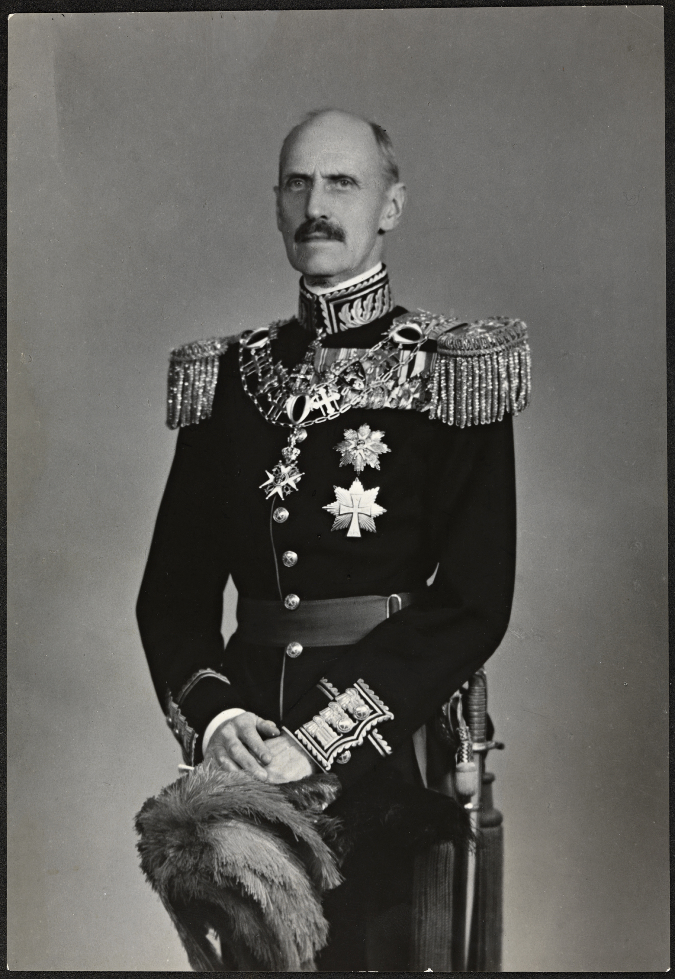 Tittel / Title: Portrett av Kong Haakon VII / King Haakon VII (1872-1957) Dato / Date: 1946 Fotograf / Photographer: Ernest Rude (1871-1948) Eier / Owner Institution: Nasjonalbiblioteket / National Library of Norway Lenke / Link: Bildesignatur / Image Number: blds_04773